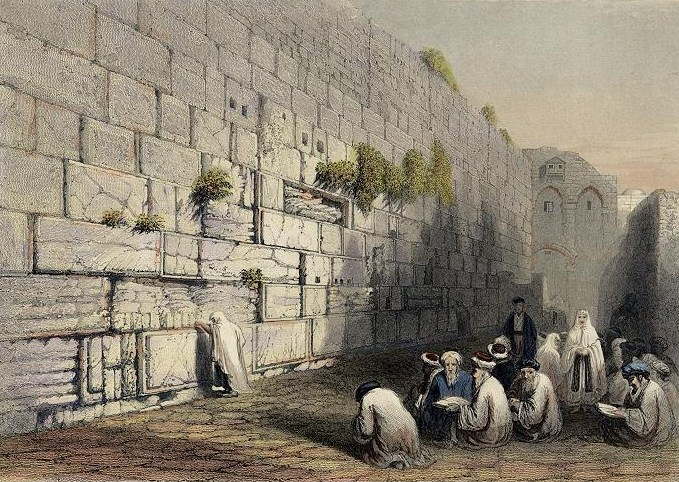 Jews Place of Wailing, Jerusalem